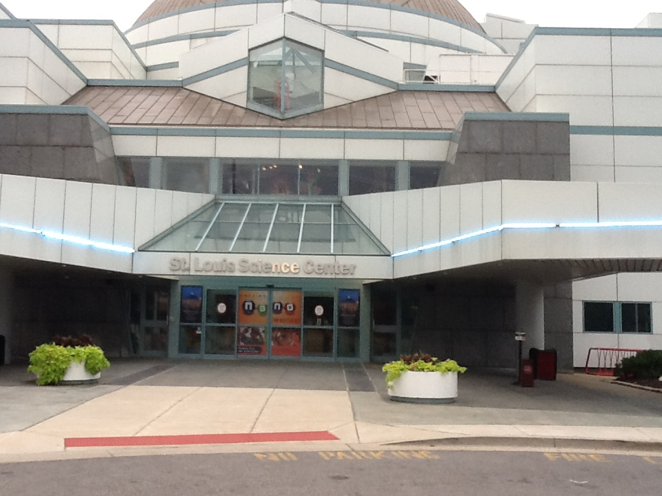 Saint Louis Science Center, Saint Louis, MO